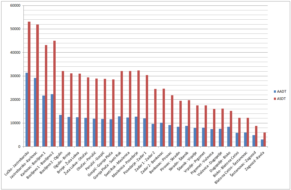 Traffic volume measured on the Croatian A1 motorway in 2009 (by section), Data source: Traffic counting on the roadways of Croatia in 2009 (Hrvatske ceste, 2010)